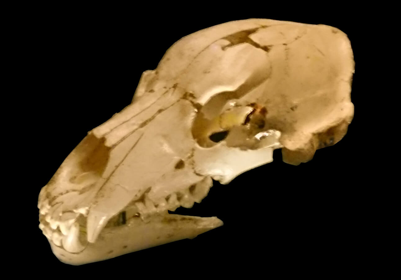 Complete skull of an Ursus deningeri found in the Sima de los Huesos